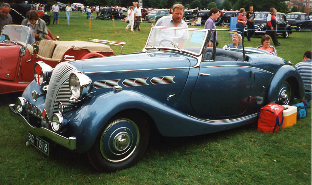 1939 Triumph Dolomite Roadster Coupé (DVLA) first registered 1 June 1939, 2055cc